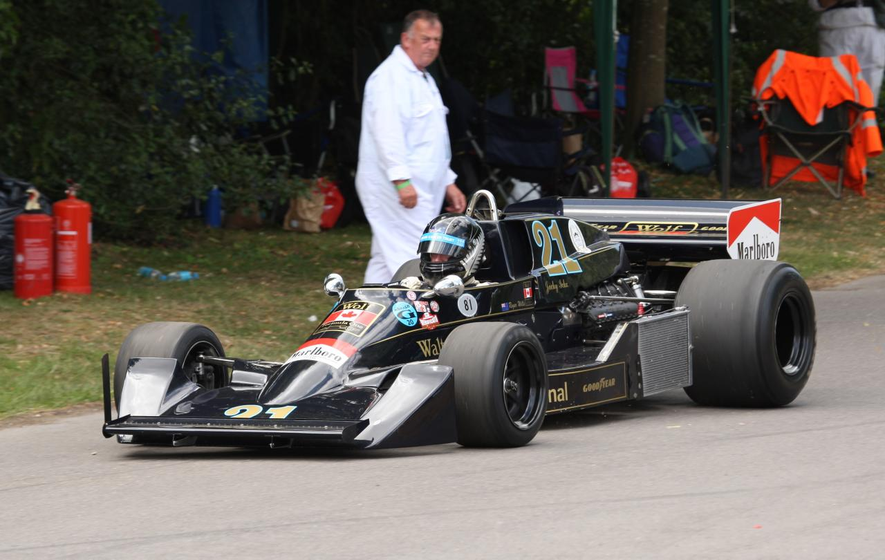 Wolf Williams FW05 at Goodwood FoS 2010